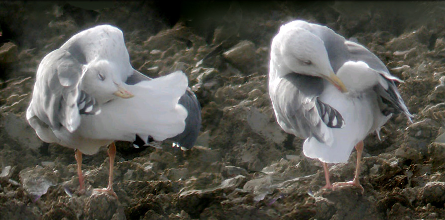 Water birds (Larus argentatus here) maintain and waterproof their feathers by smoothing with an oily substance produced by a gland called "uropygial" located near the anus. They may thus contribute to the spread of influenza virus. Author: F. Lamiot (Own Work)